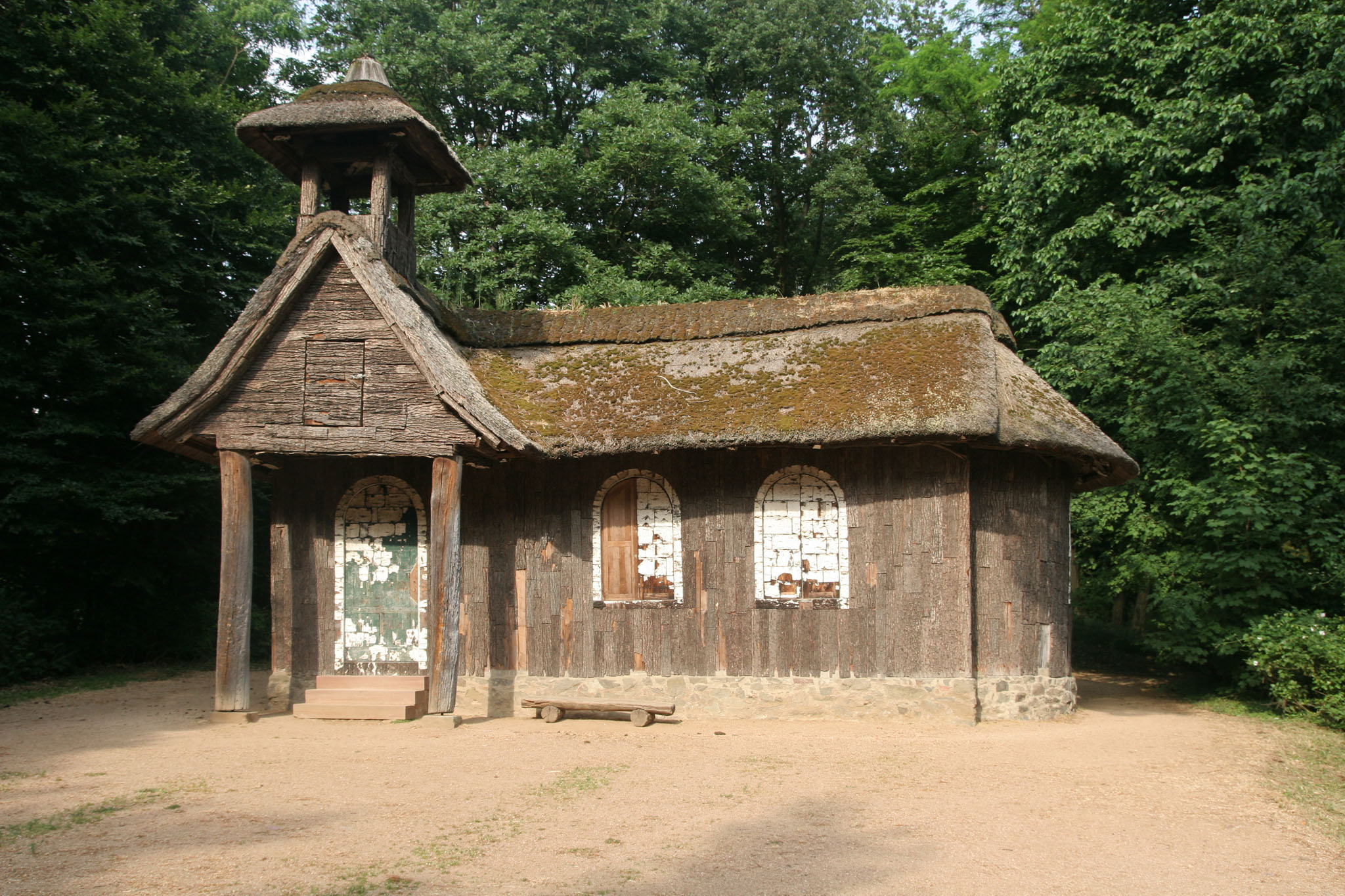 The Eremitage in the Fürstenlager in Bensheim-Auerbach (Hesse)